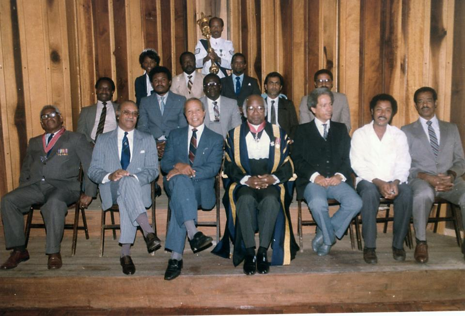 St Lucia Parliament